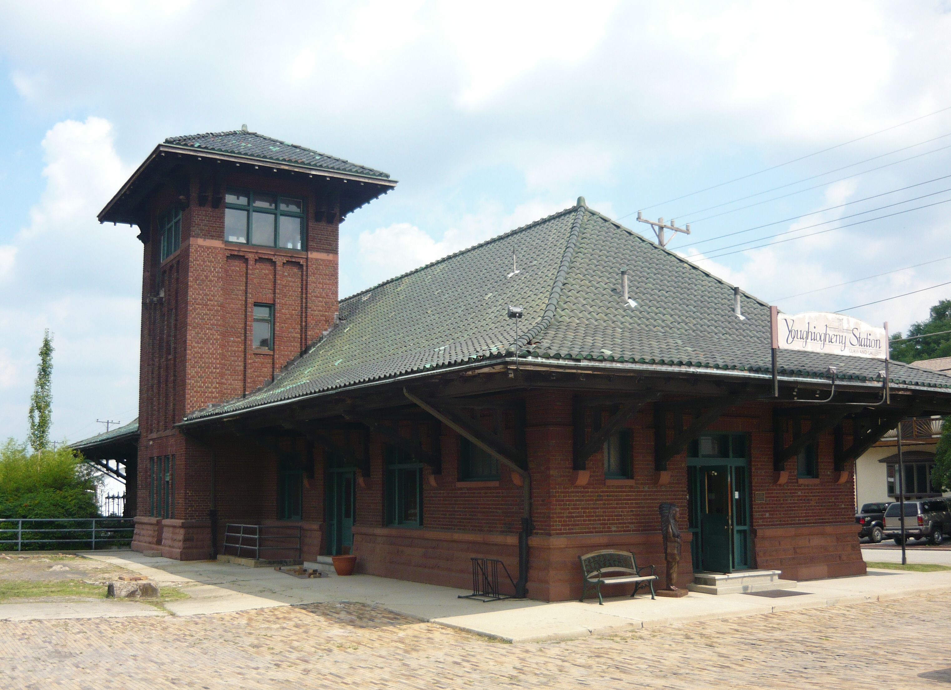 Connellsville Union Passenger Depot, also known as Pittsburgh & Lake Erie Station, 900 West Crawford Avenue (corner of North Seventh Street), Connellsville, Pennsylvania. Passenger service at this station ceased in 1939. This station is not to be confused with the Amtrak station on the opposite side of the river. Railroad tracks used to pass by the left side of the station on an elevated structure. Built 1913 in the Mission and Craftsman styles. Architects: J.C. Grooms and Charles Yon.